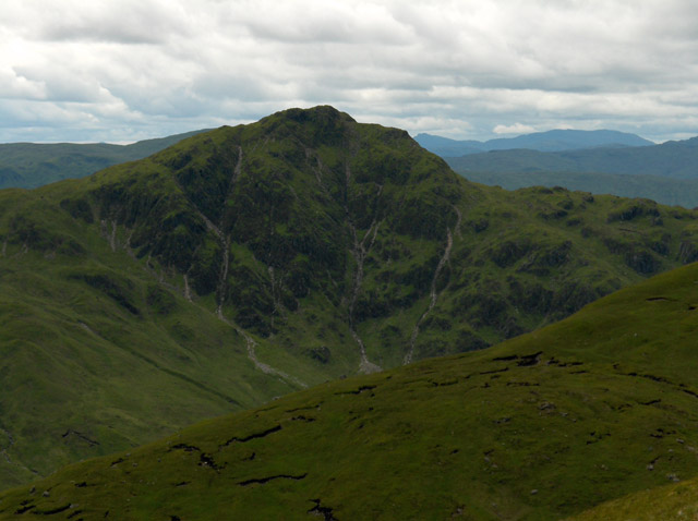 Beinn Each. Gullies on the east face, viewed from the upper slopes of Stuc a' Chroin.